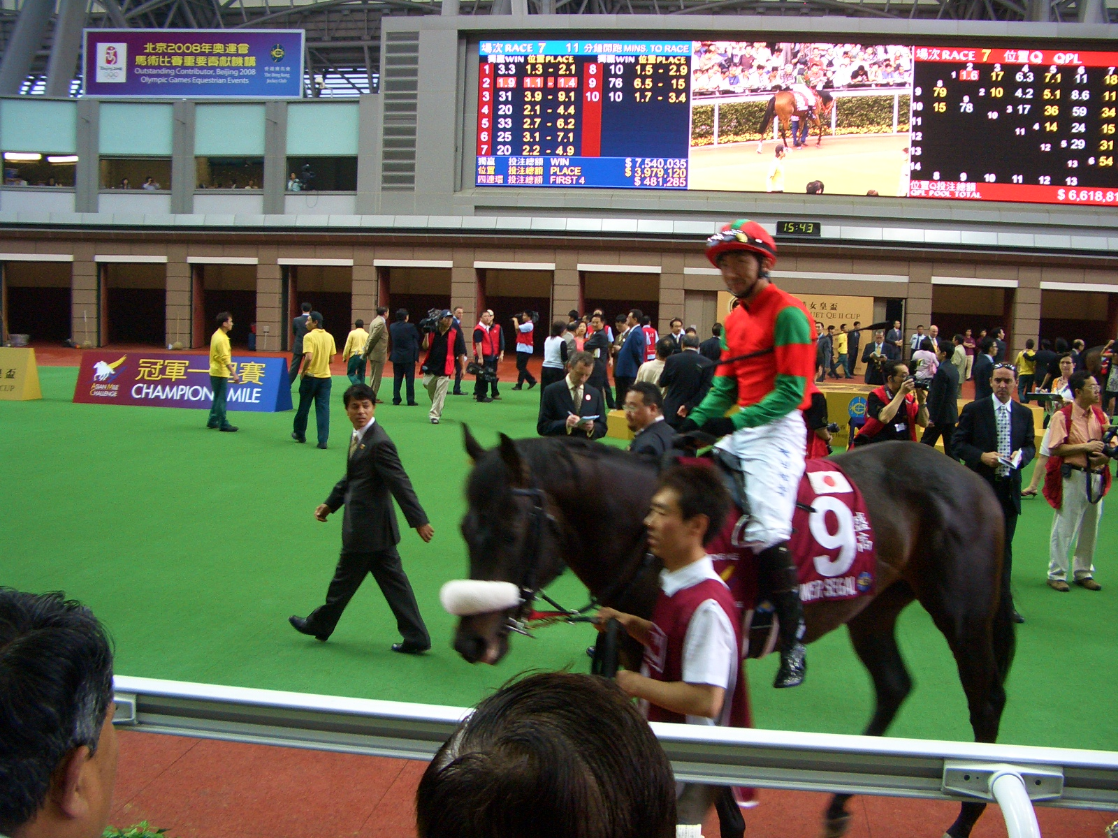 Meiner Segal on 2008 Champions Mile